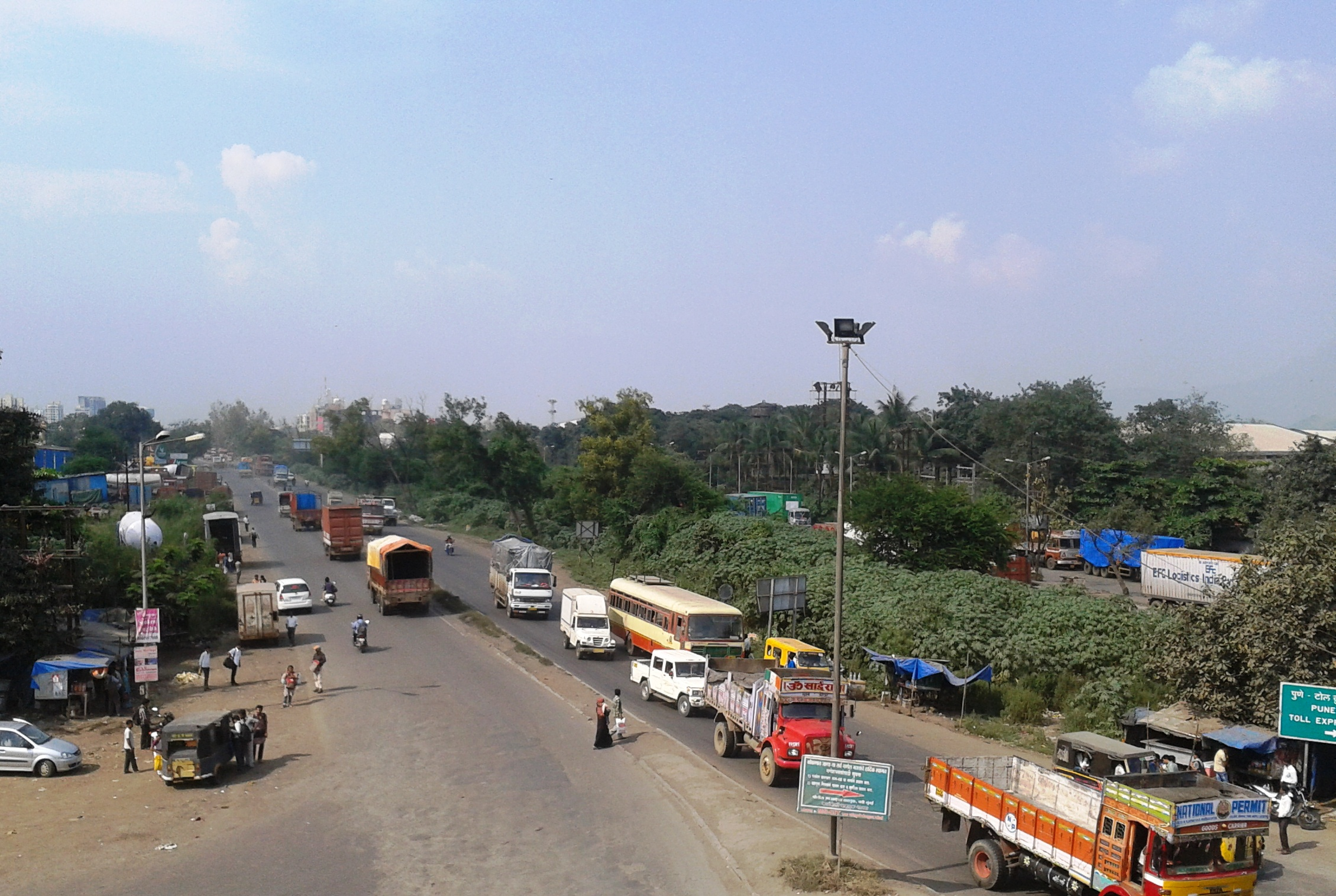 NH 48 (Old NH 4) at Kalamboli, Maharashtra.